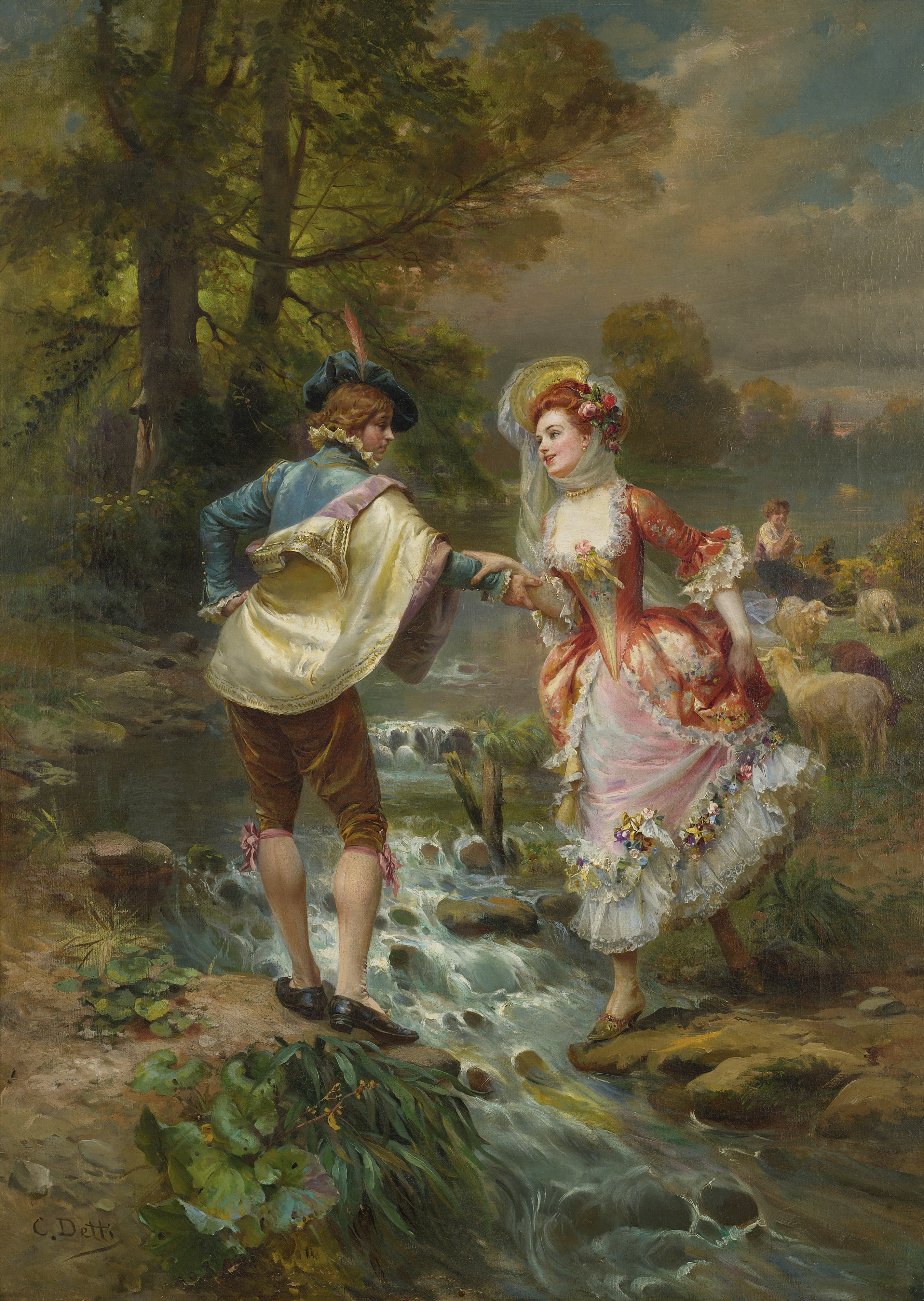 Tres Galant